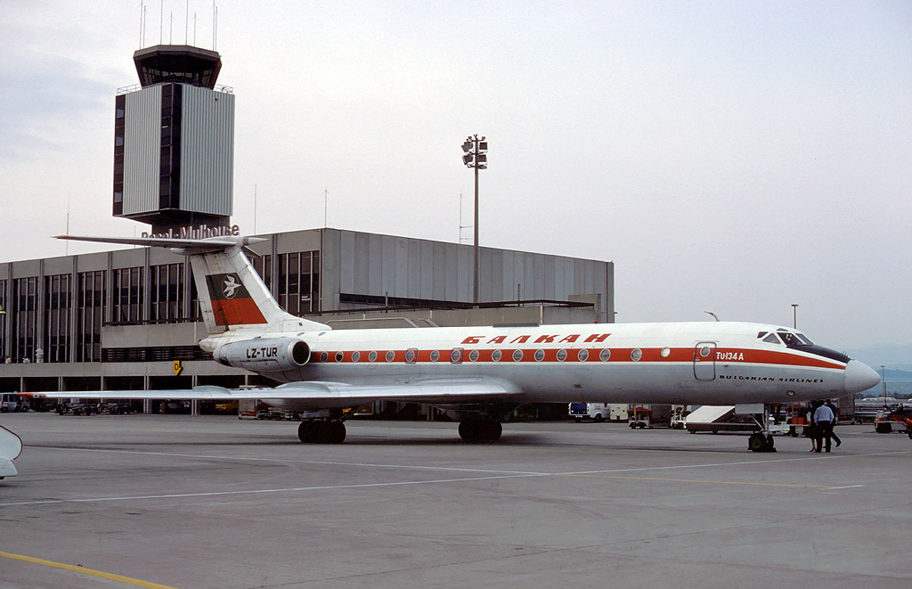 Balkan Bulgarian Airlines Tupolev Tu-134A (LZ-TUR) at Euroairport. This aircraft crashed in 1984 in Sofia